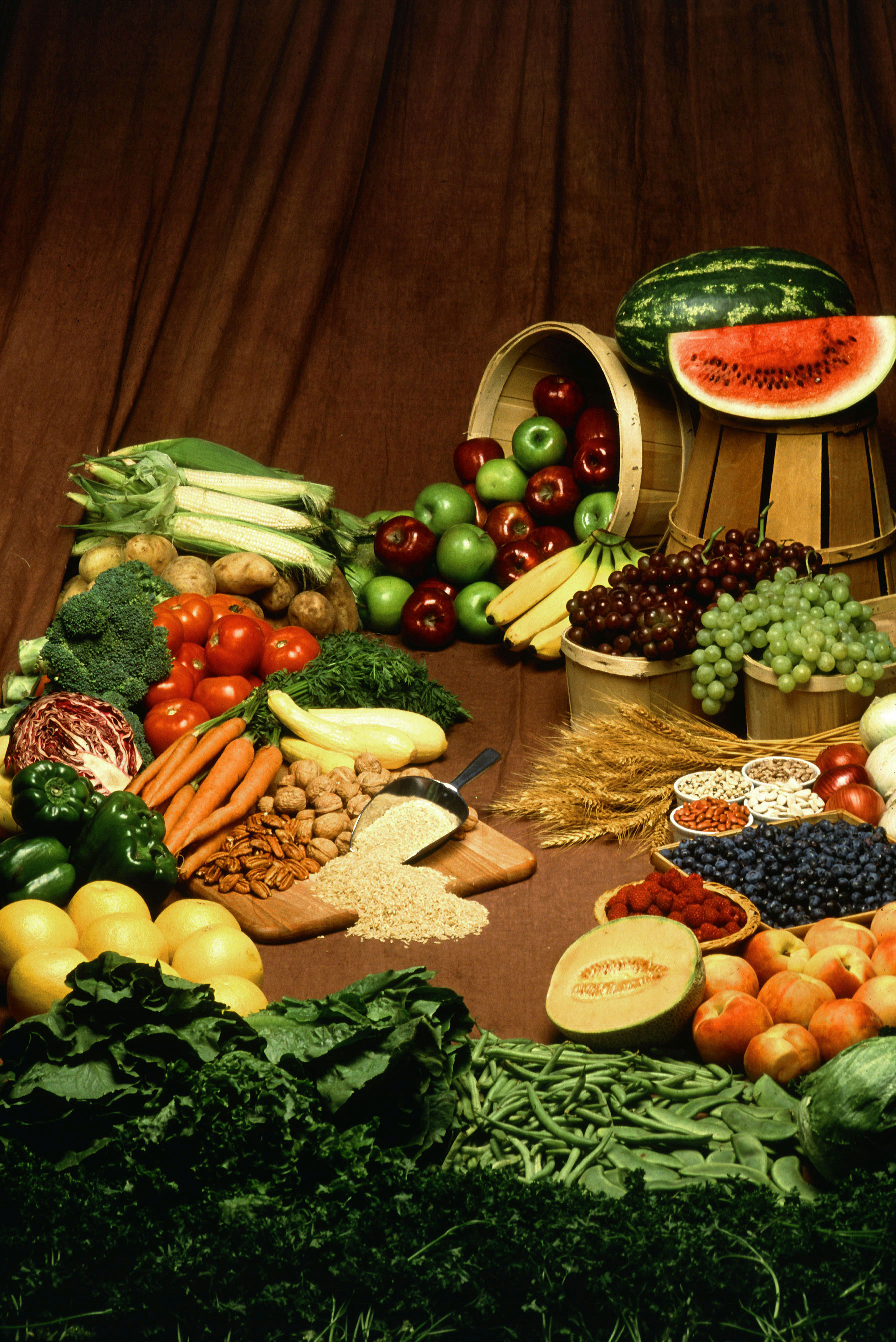 The fiber in complex carbohydrates-grain, fruit, and vegetables-can reduce the body's absorption of fructose, even from fruit which is naturally high in the sugar.